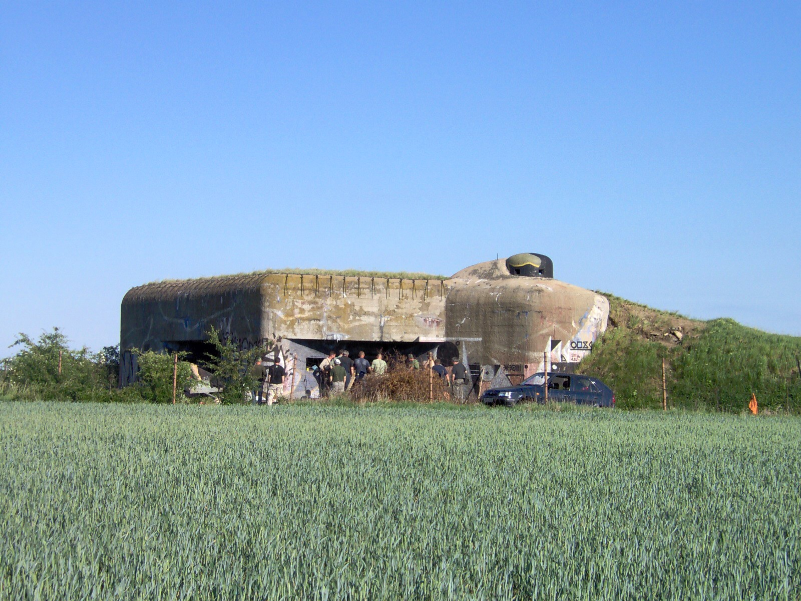 MJ-S 4 Zatáčka infantry casemate, Znojmo District, Czech Republic